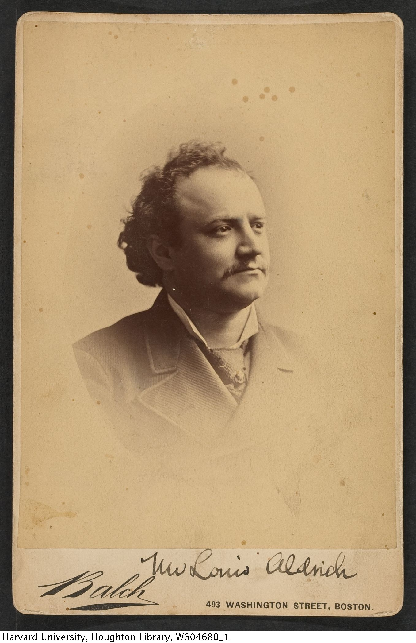 Cabinet card image of American actor Louis Aldrich (1843-1901). Dated as 1877 by source. TCS 1.238, Harvard Theatre Collection, Harvard University